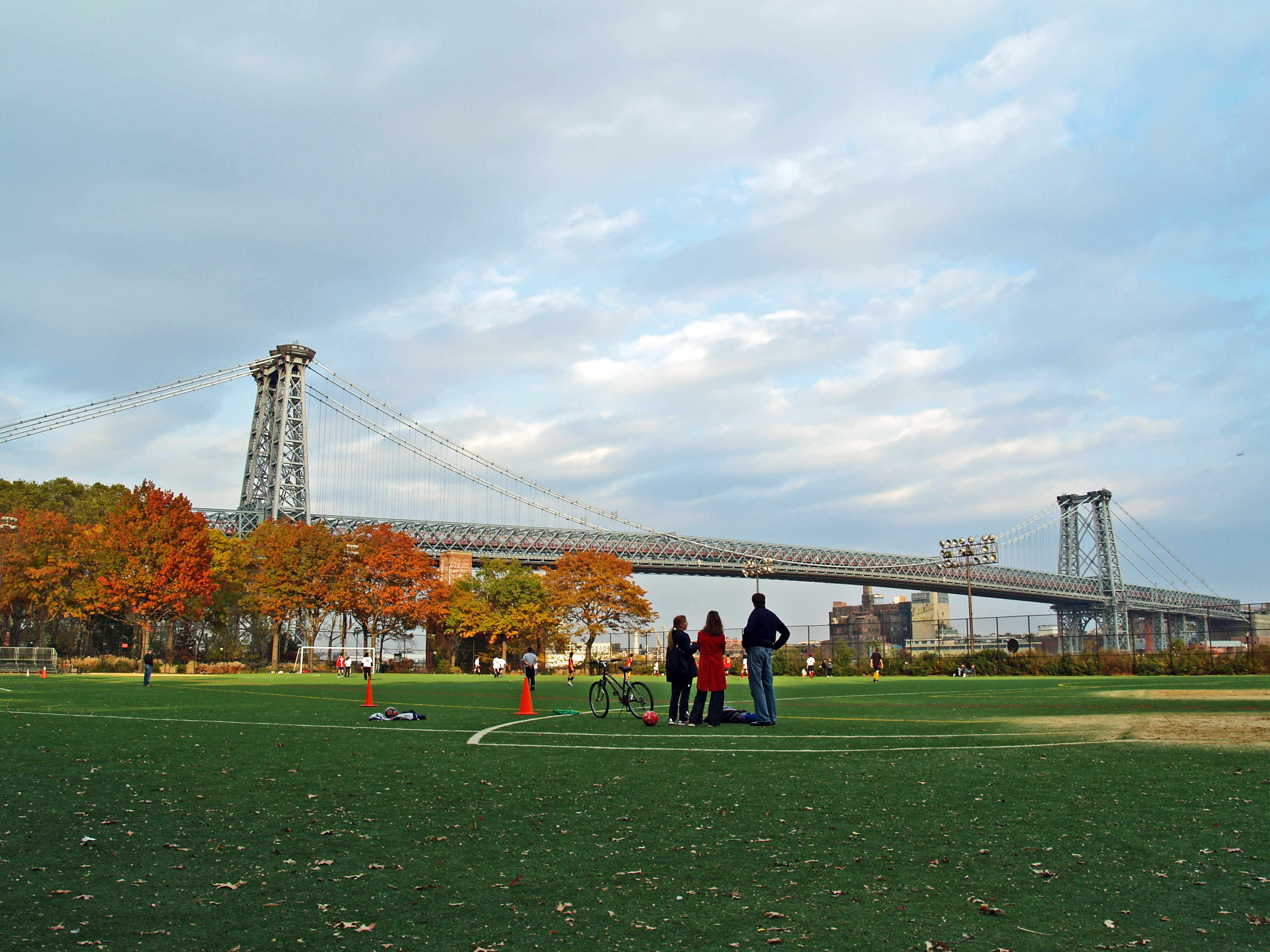 New York City's East River Park in Manhattan's East Village in the Fall of 2008. Photographer's blog post about the East River Park photographs.